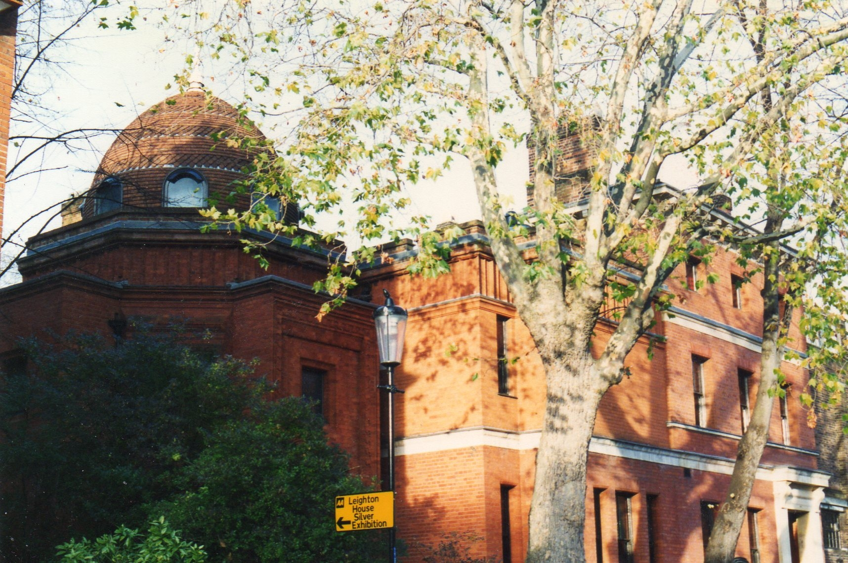 Lord Leighton House - Museum, London